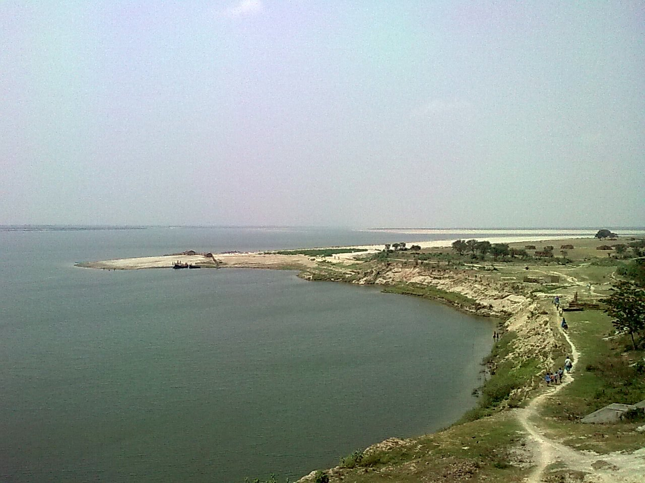 Patalpuri cave and land adjoining Bateshwar cave on the Patharghata hill